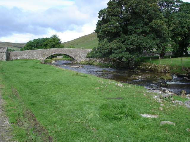 Halton Gill. Bridge over the River Skirfare